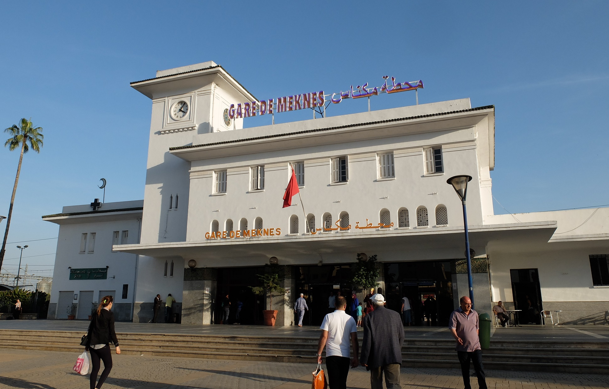 Meknes Ville train station